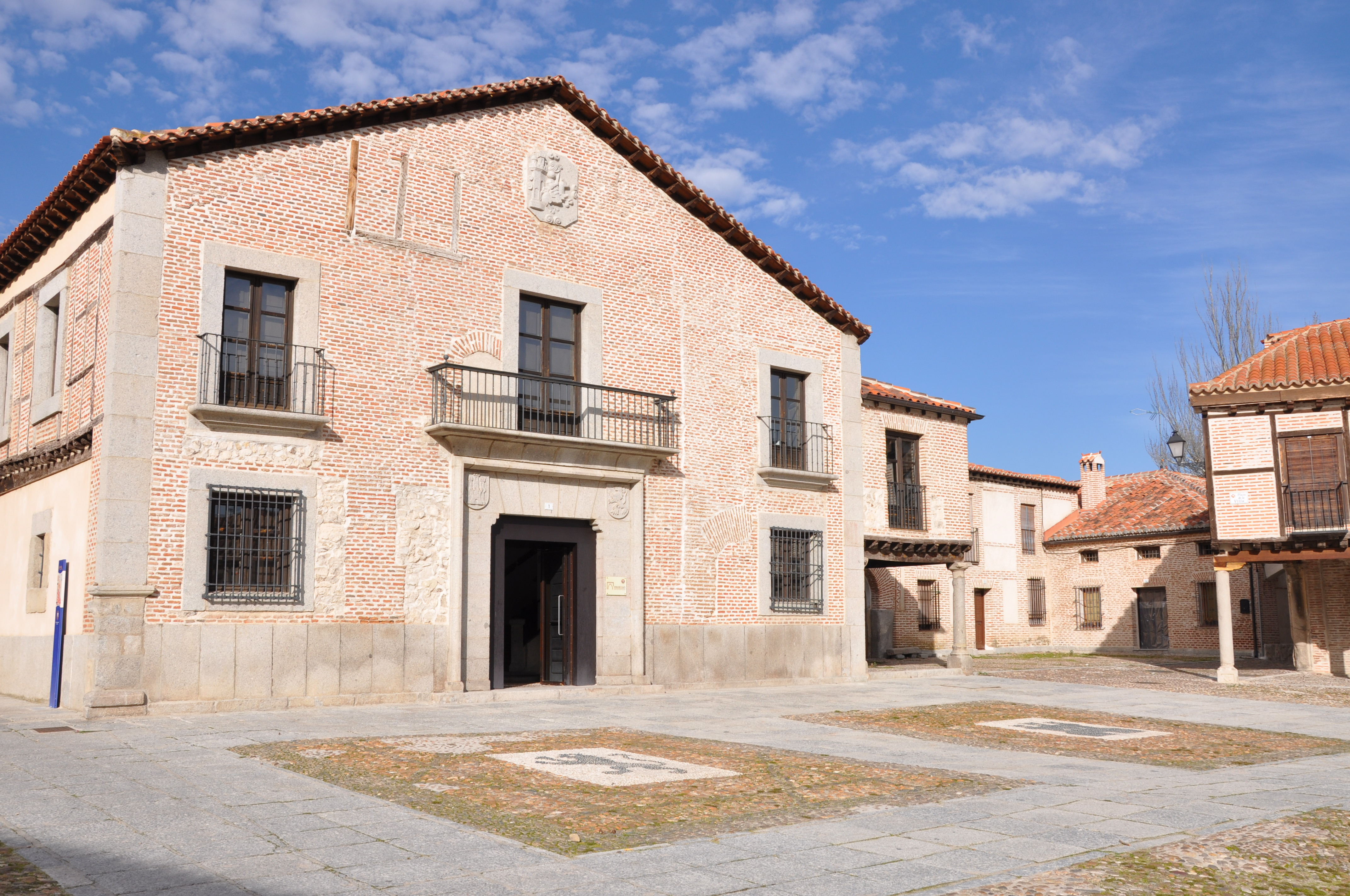 House of Sexmos, Arévalo, AV, Spain